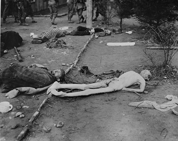 The bodies of prisoners who were murdered by the SS just before the evacuation, are strewn on the grounds of the newly liberated Ohrdruf concentration camp.